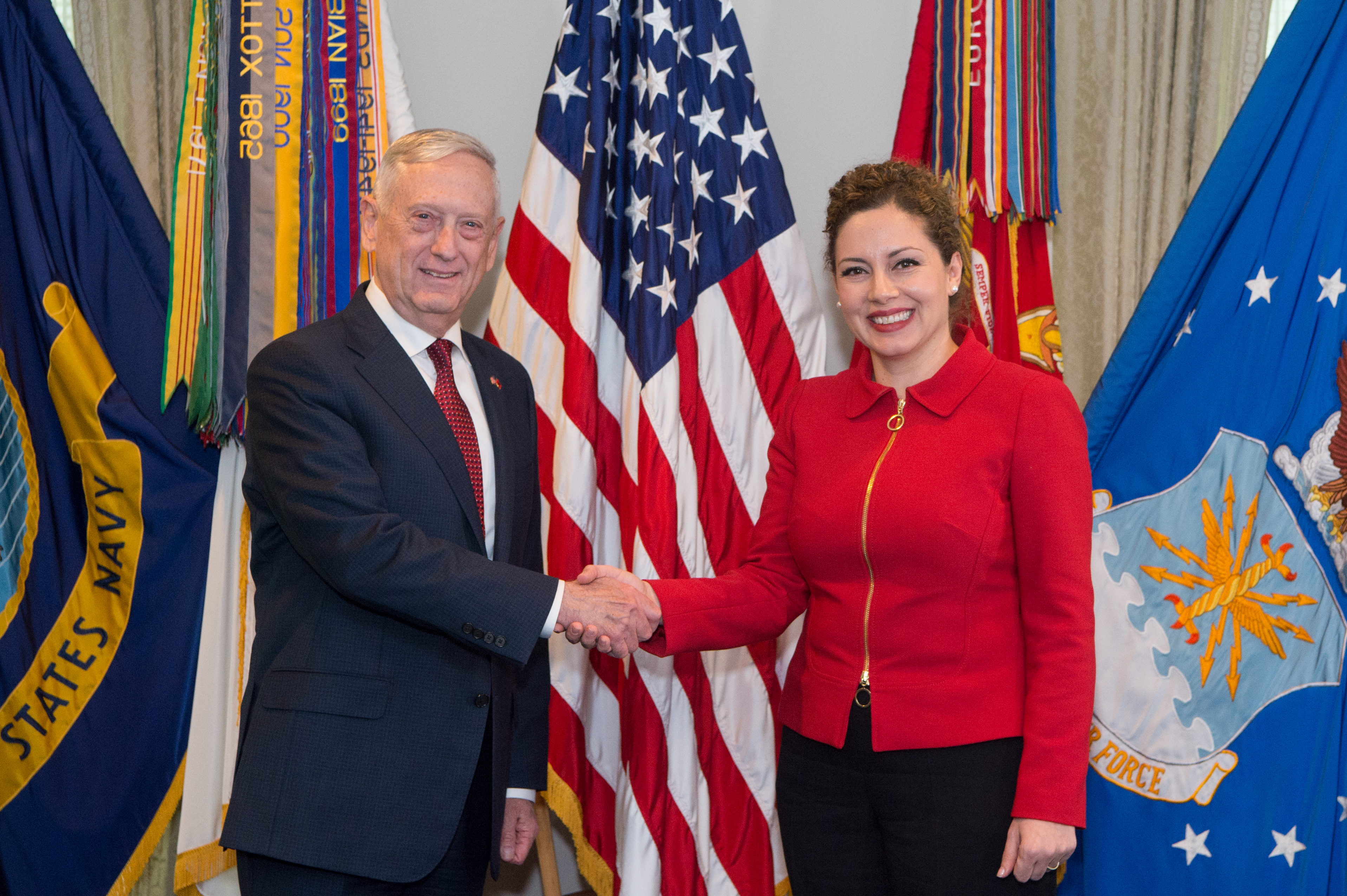 Defense Secretary James N. Mattis meets with Albanian Minister of Defence Olta Xhaçka at the Pentagon in Washington, D.C. (180417-D-SV709-0065)